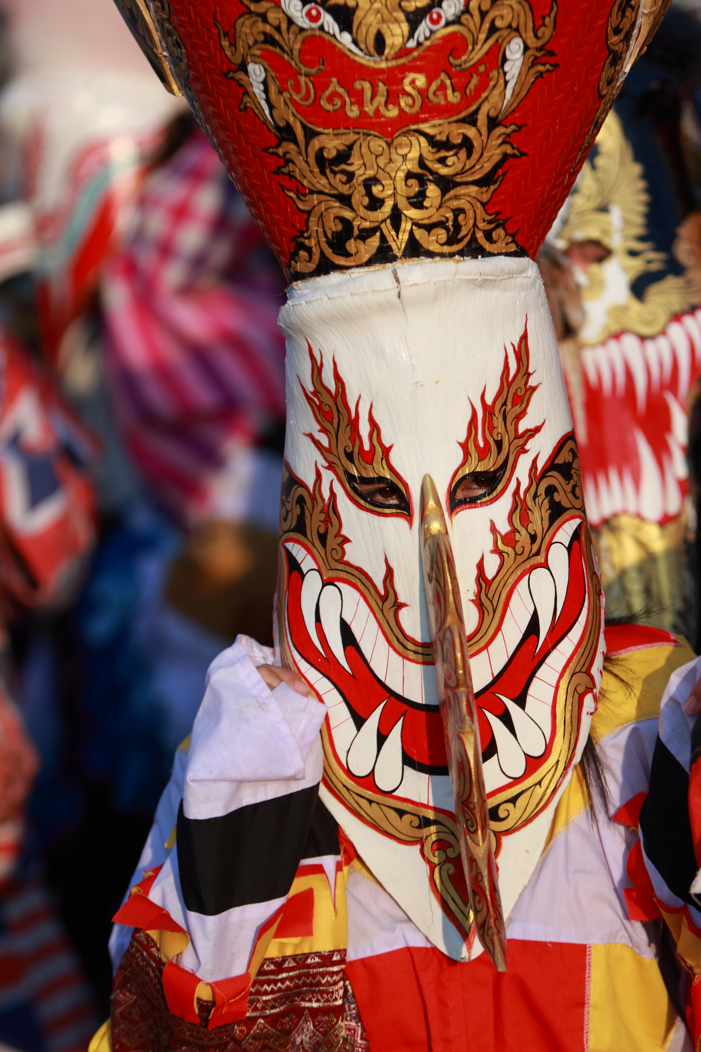 Phi Ta Khon mask festival at dansai district